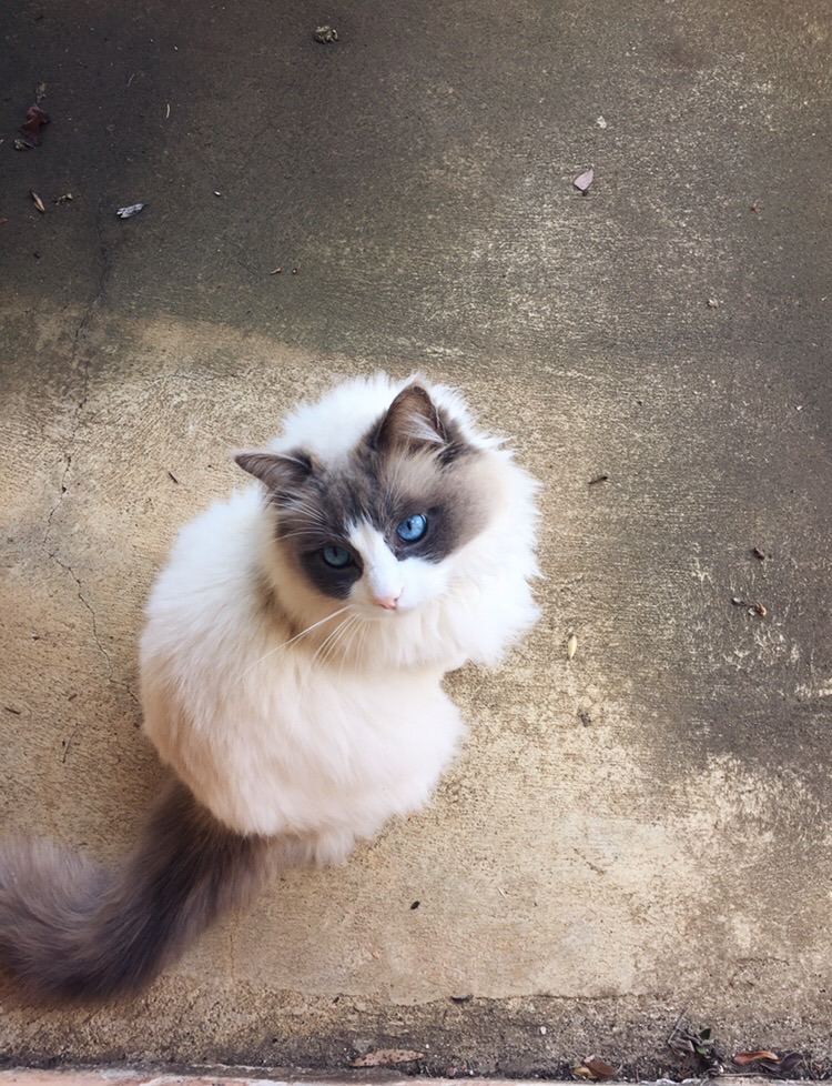 A domesticated, male, white ragdoll cat with grey markings on face and tail and blue eyes pictured sitting down